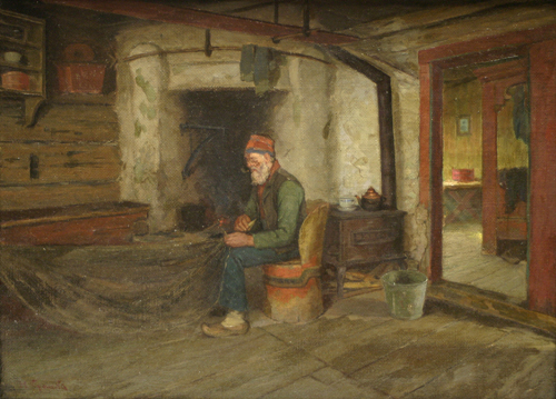 Mending the Net